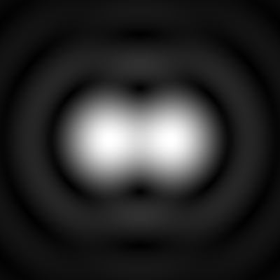 Airy disks of two point light-sources seen through a round aperture. The distance of the two sources matches the rayleigh-criterion d = 1.22 λ sin ⁡ α {\displaystyle d={\frac {1.22\,\lambda }{\sin \alpha } The brightness of the color shows the square-root of the intensity, since the patterns could hardly be seen at a linear scale.